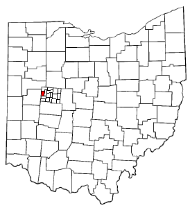 Adapted from Wikipedia's OH county maps. Created by SwissCelt.